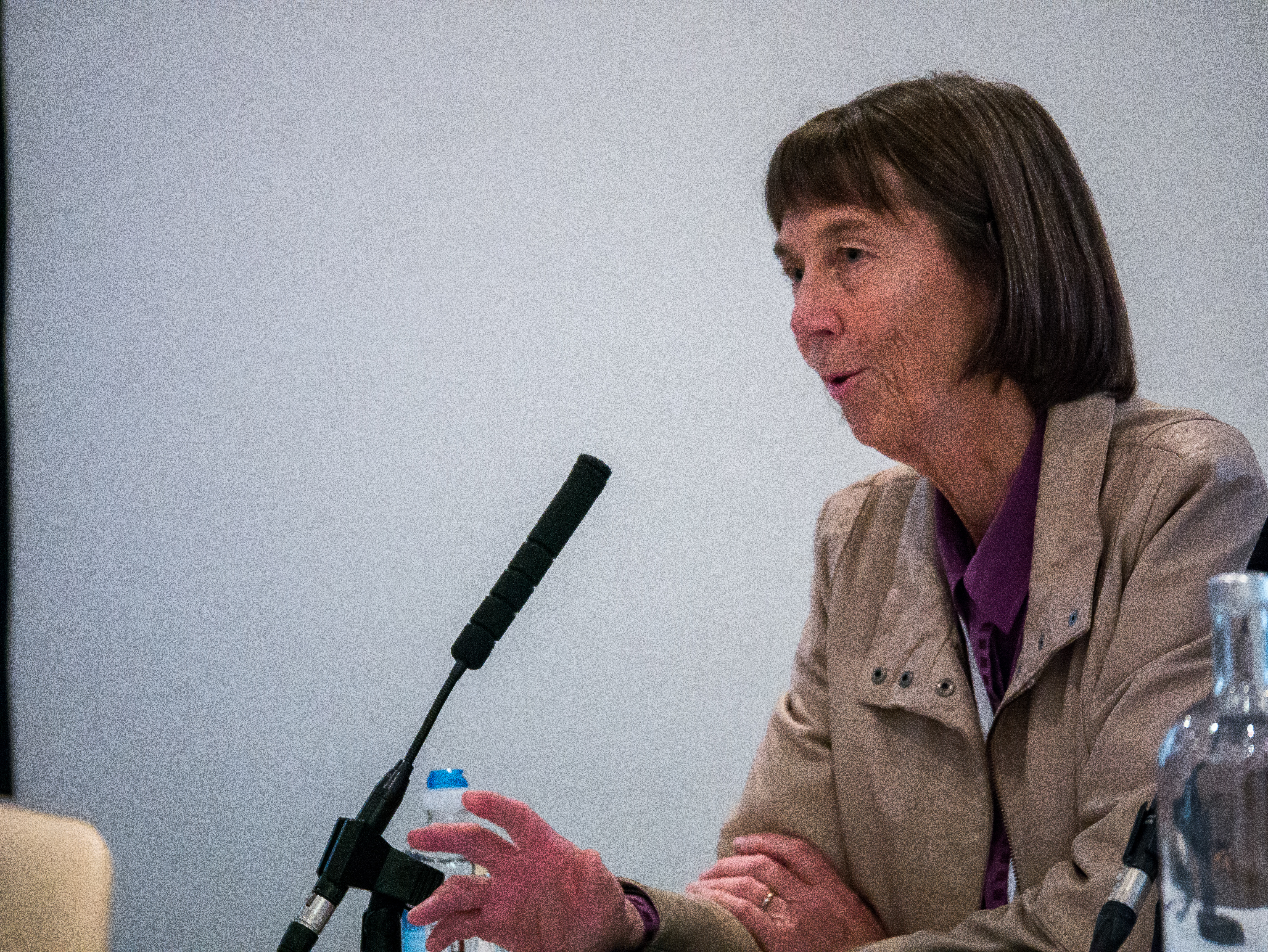 QEDCon Day One-94 QEDCon 2015